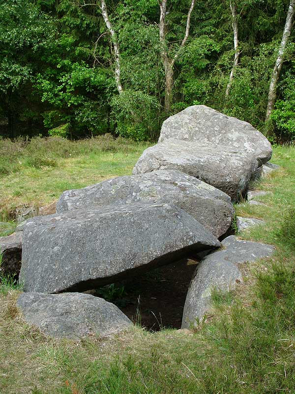 Soderstorf Graeberfeld